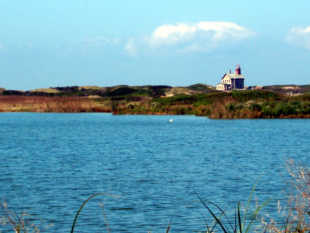 Lighthouse on Block Island, RI